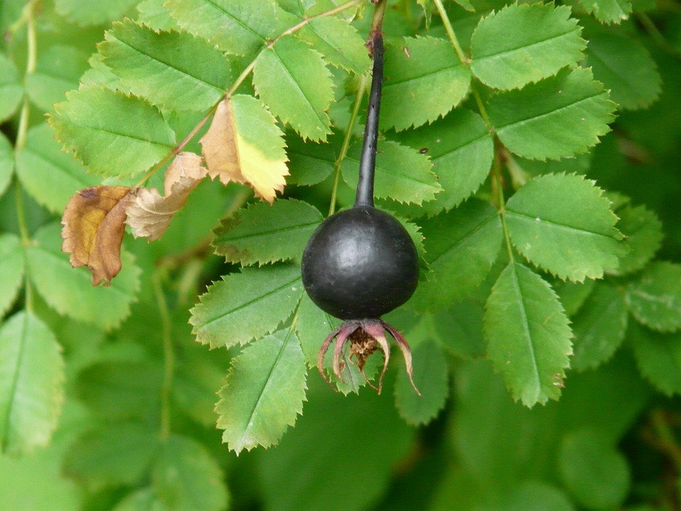 Black or dark purple rose hip (Burnet/Scotch Rose, Rosa Pimpinellifolia/Rosa Spiniosissima)